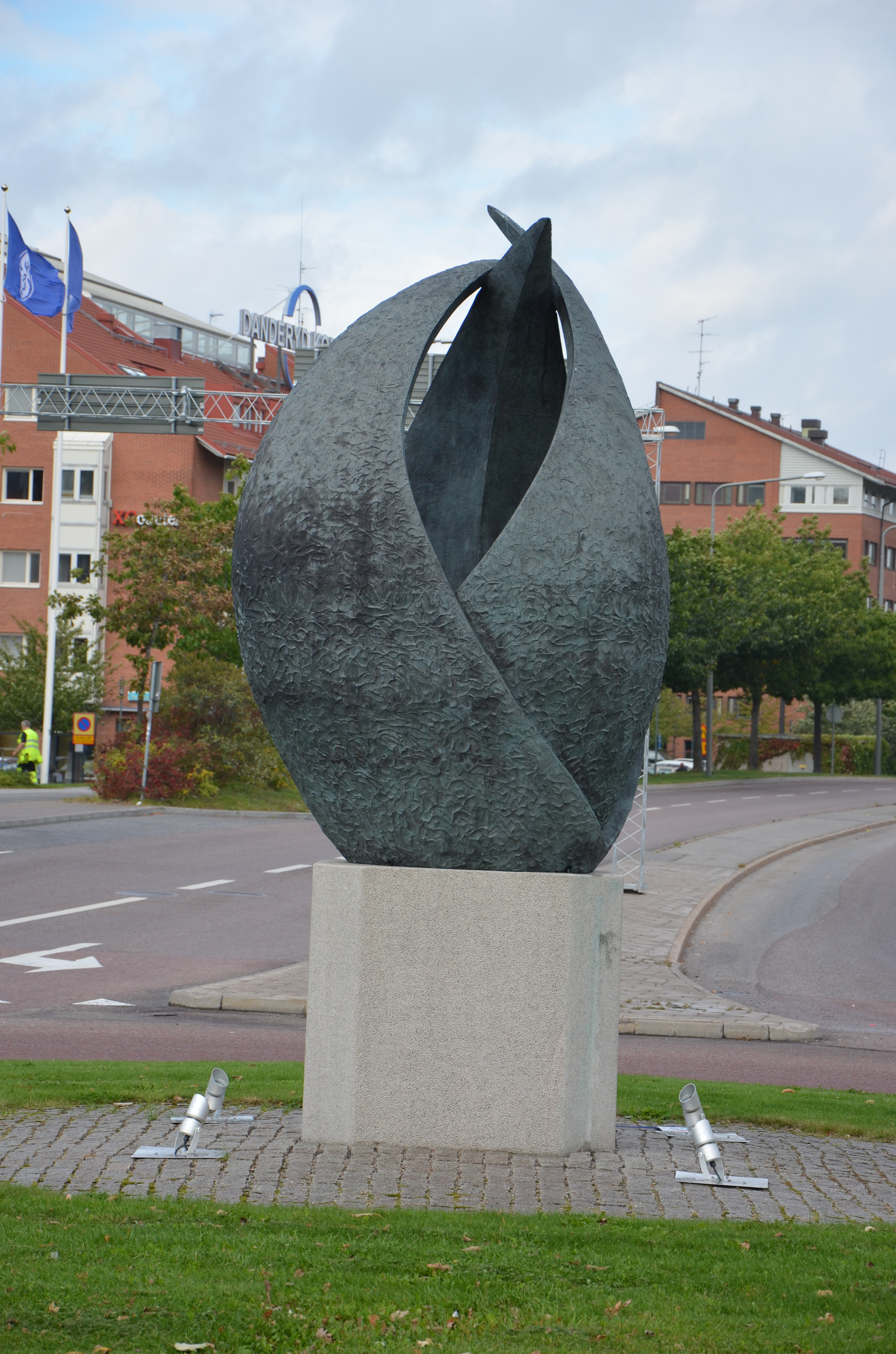 Carl-Gustaf Ekbergs Livskraft, brons, norra rondellen vid Mörby centrum, Danderyds kommun